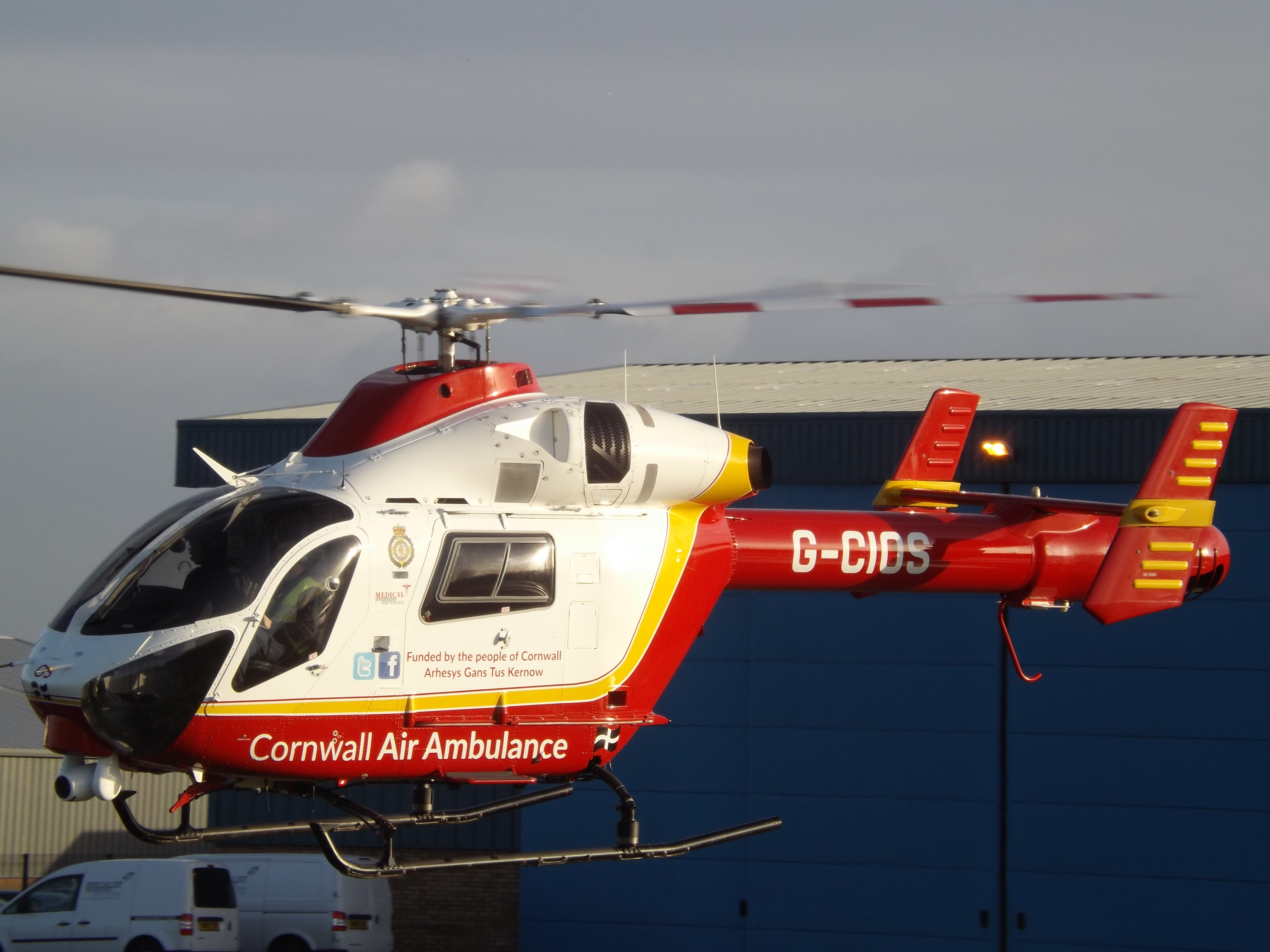 At Gloucestershire Airport.